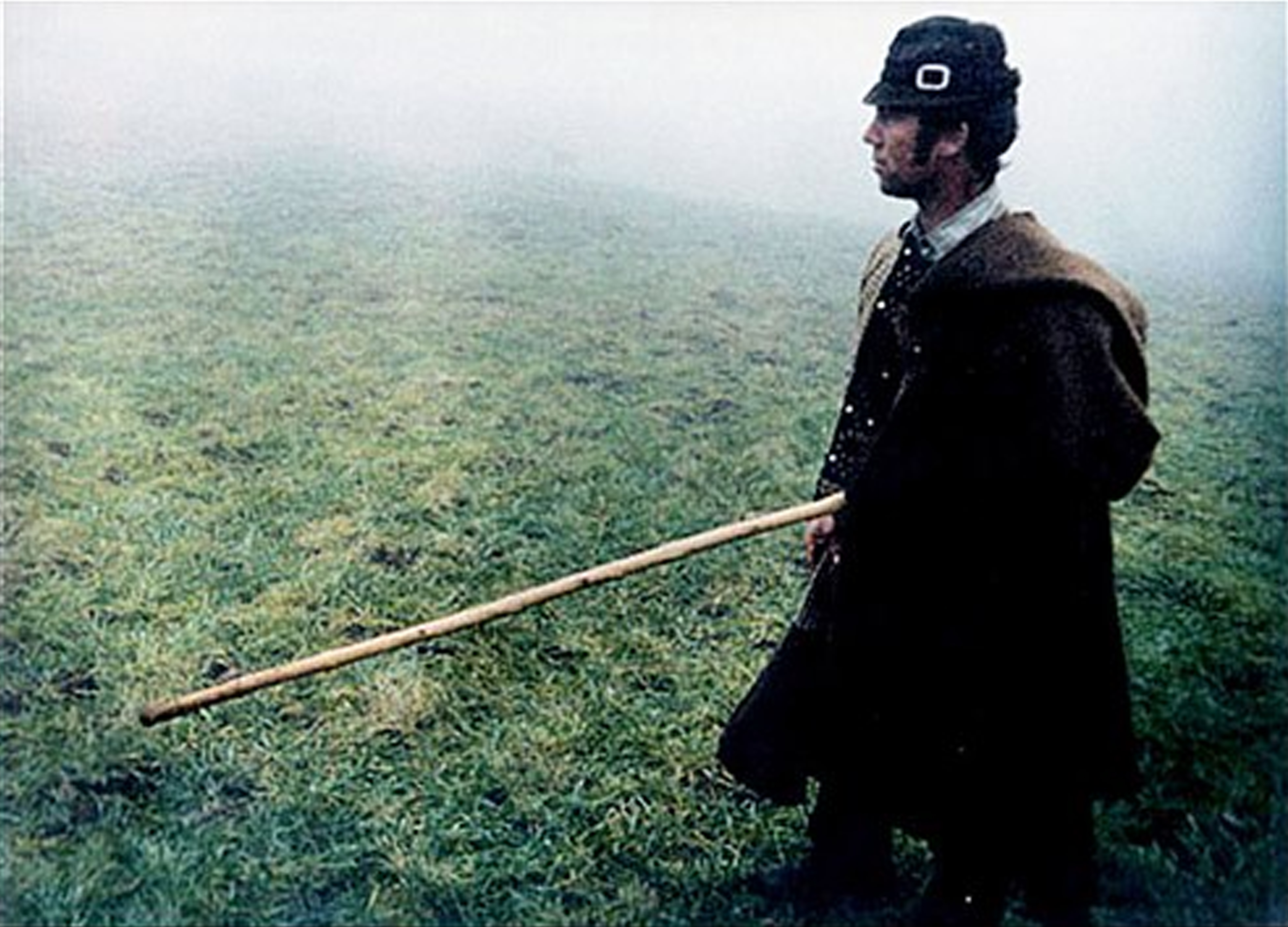 Shepherd of Castro Laboreiro